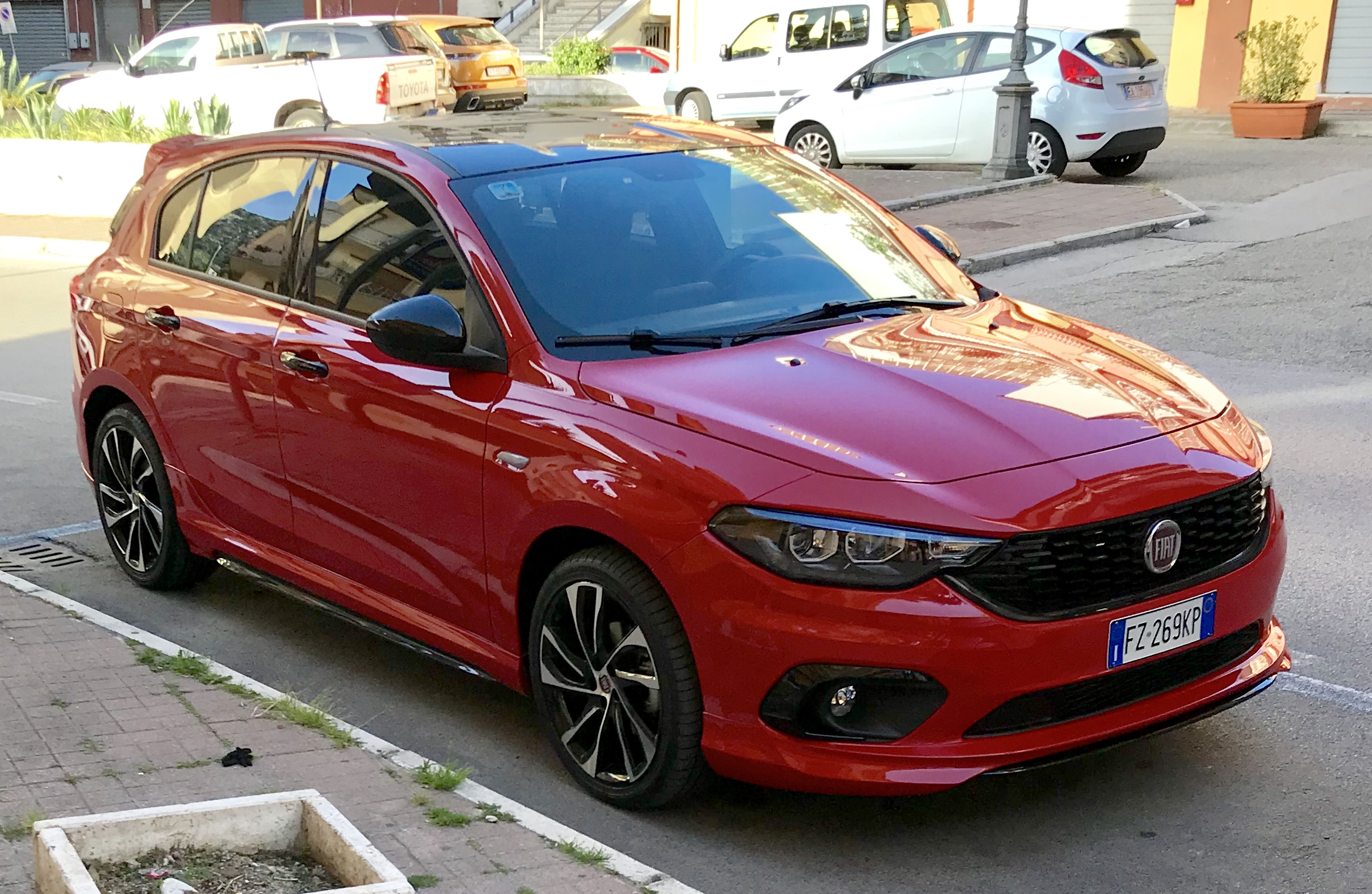 Fiat Tipo Sport MY 2020